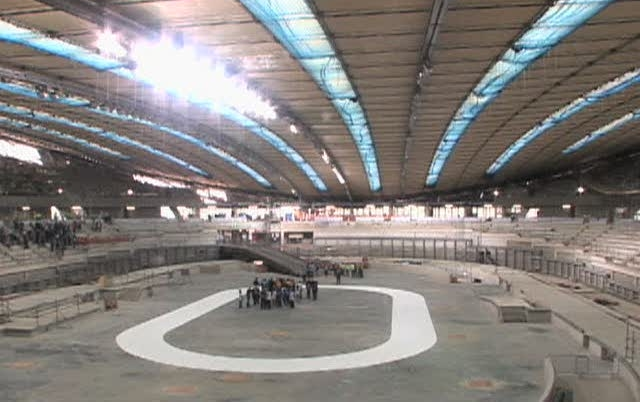 The cycling track (velodrome) for the upcoming 2012 Olympic Games in London.